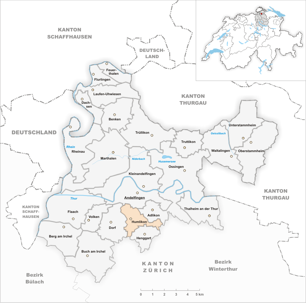 Municipality Humlikon